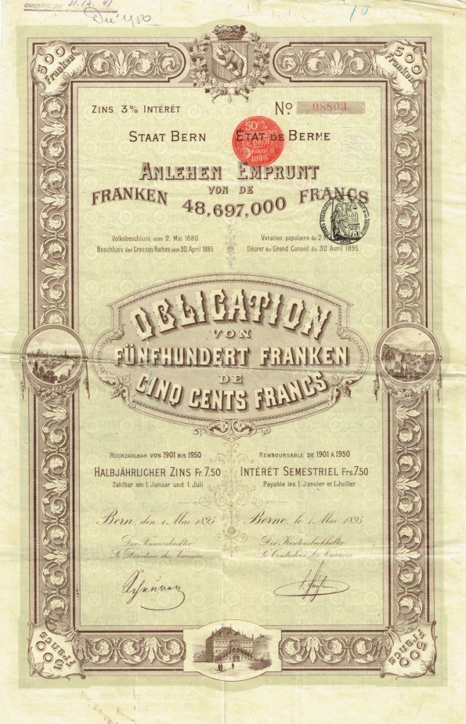 Bond of the Canton of Bern, issued 1. May 1895